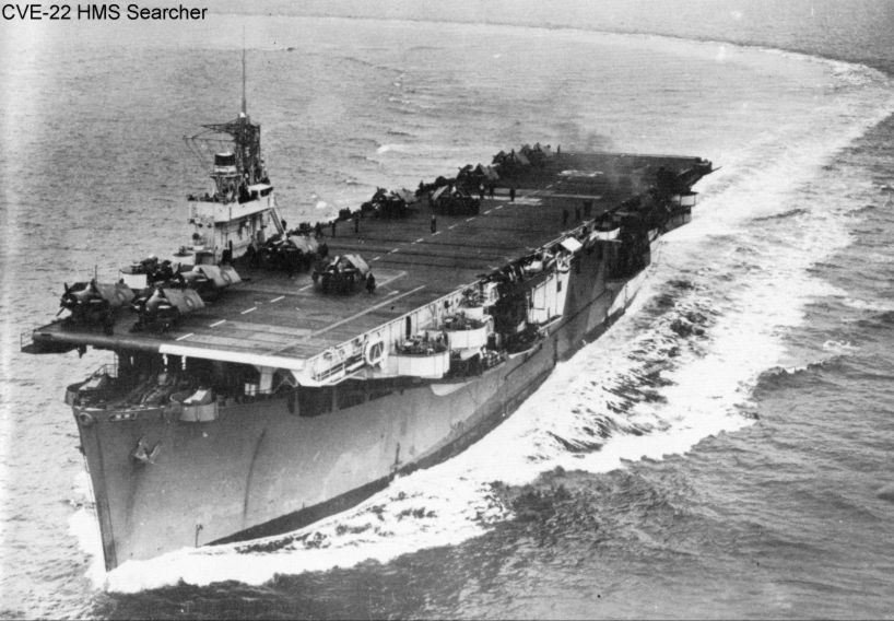 HMS Searcher underway